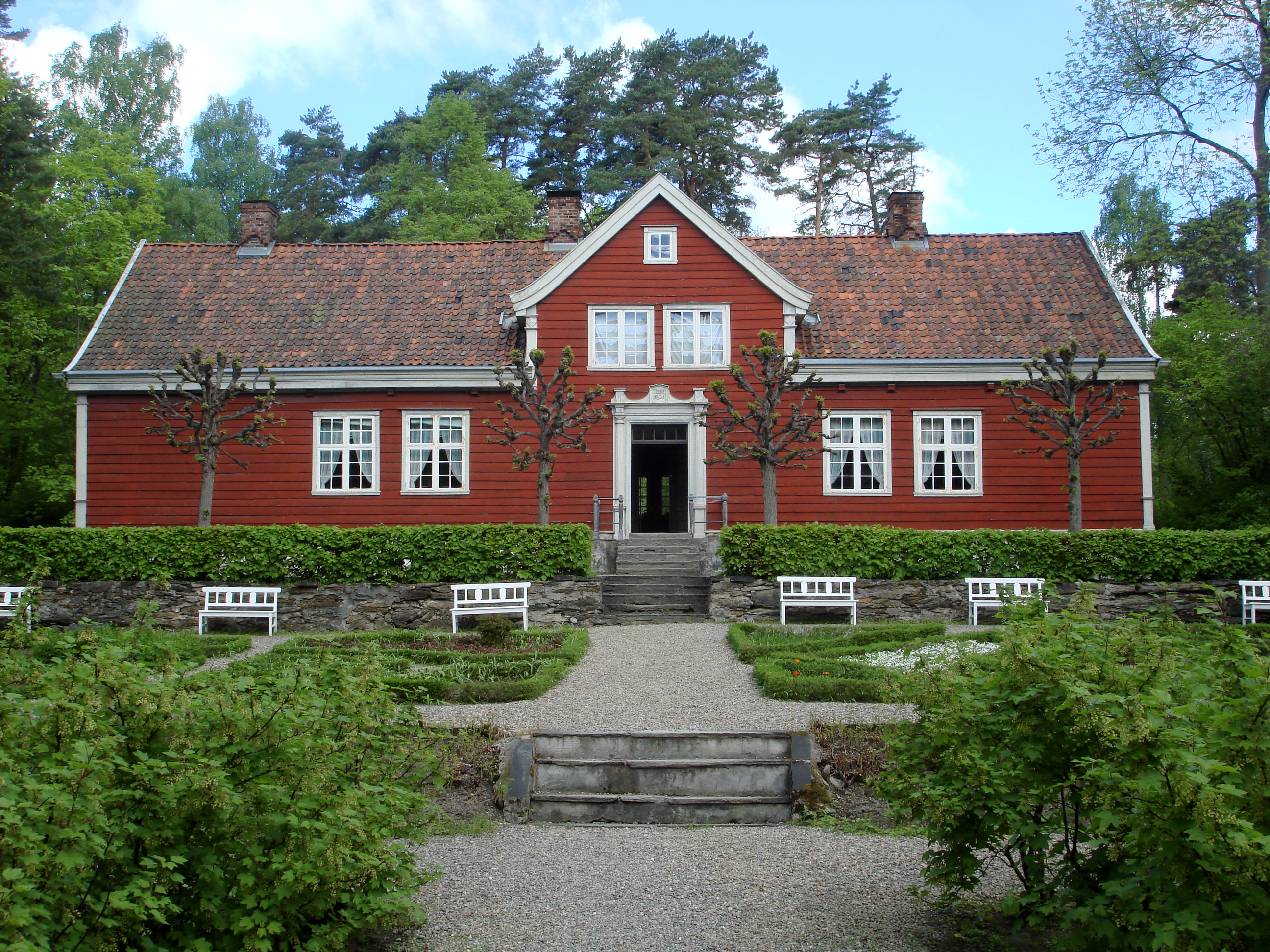 Vicarage from Leikanger in Sogn, Norway, now in the open air section of Norsk Folkemuseum, Oslo. Occupied by the Thaulow Family Museum since 1914.